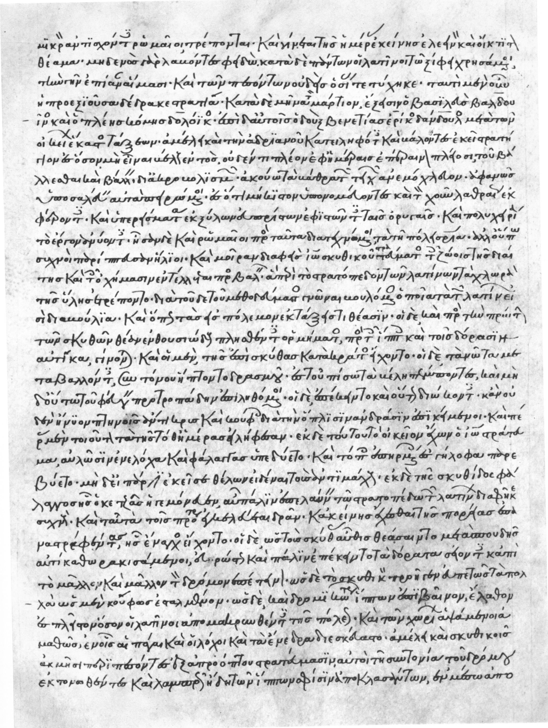 Niketas Choniates, History, in Oxford, Bodleian Library, MS. Roe 22, fol. 440v.